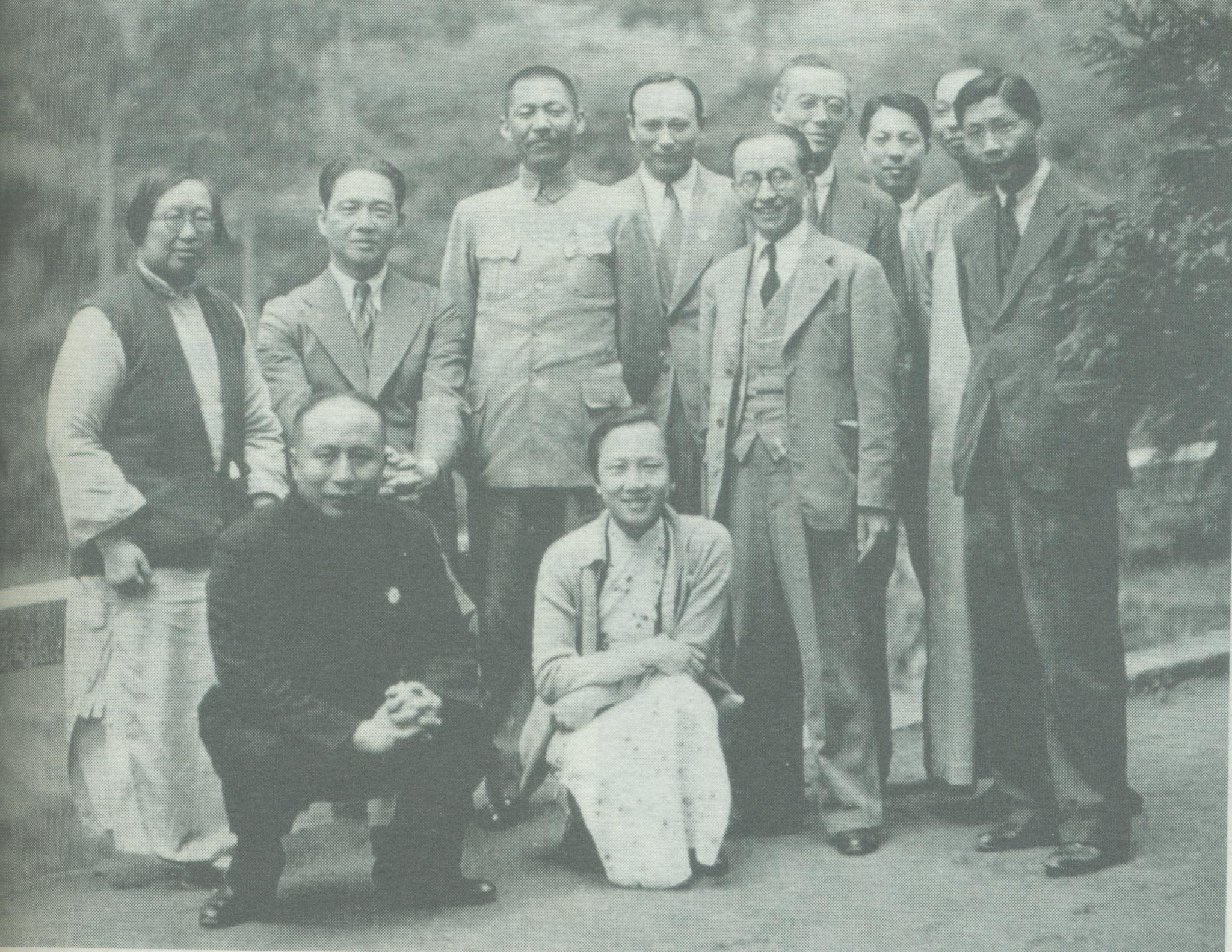 Wang Jinwei Chan pitqun in Malaya 1935年，陳璧君（左一）與汪精衛（左二）在一起